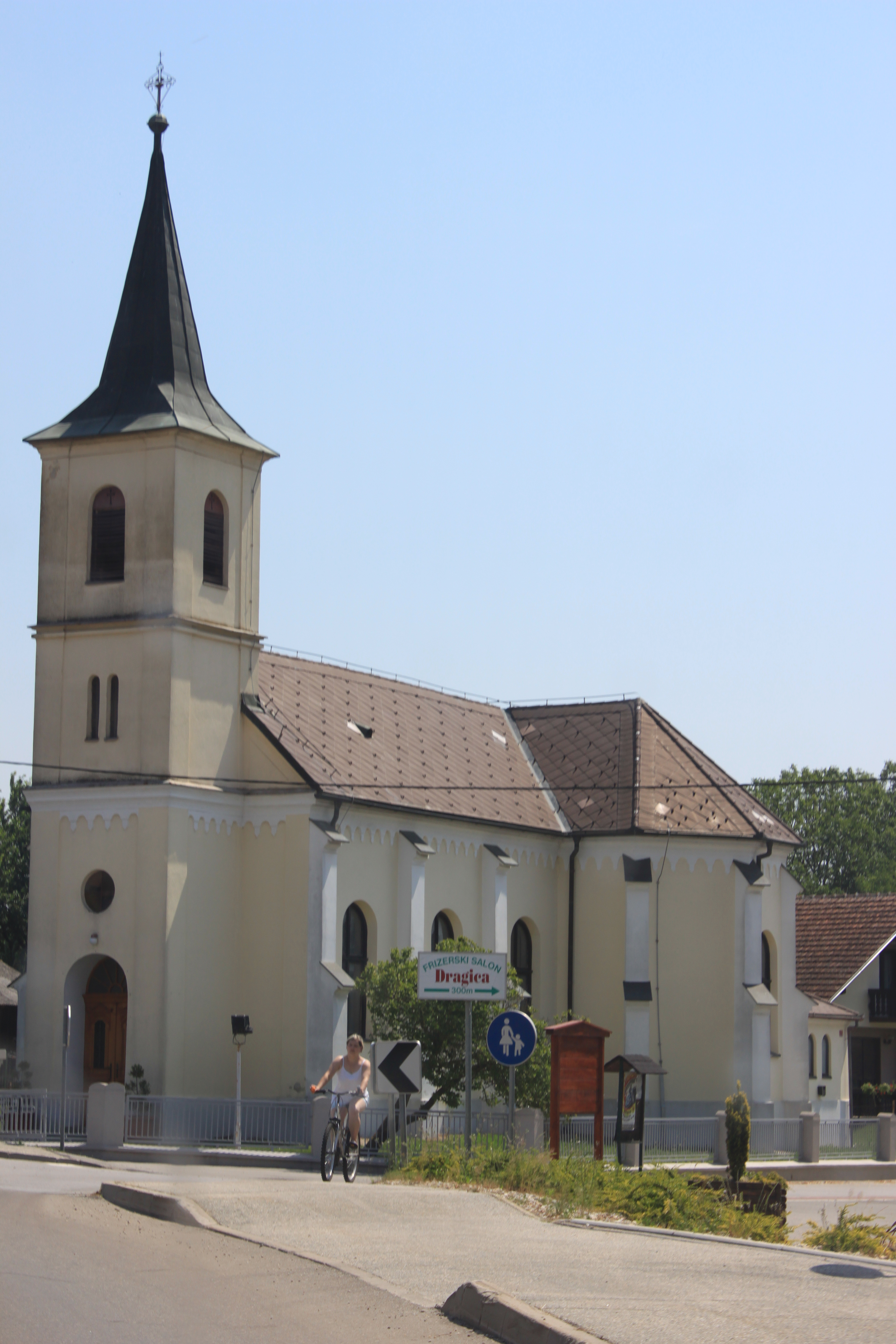 Hotiza, Municipality of Lendava (German name: Unterlimbach) Slovenia; Parish Church of St. Peter and PaulAfrikaans: Hotiza, Munisipaliteit van Lendava (Duitse naam: Unterlimbach) Slowenië; Kerk van St Peter en PaulSlovenščina: Hotiza, Občina Lendava (Nemško ime: Unterlimbach) Slovenija; Župnijska cerkev svetega Petra in Pavla